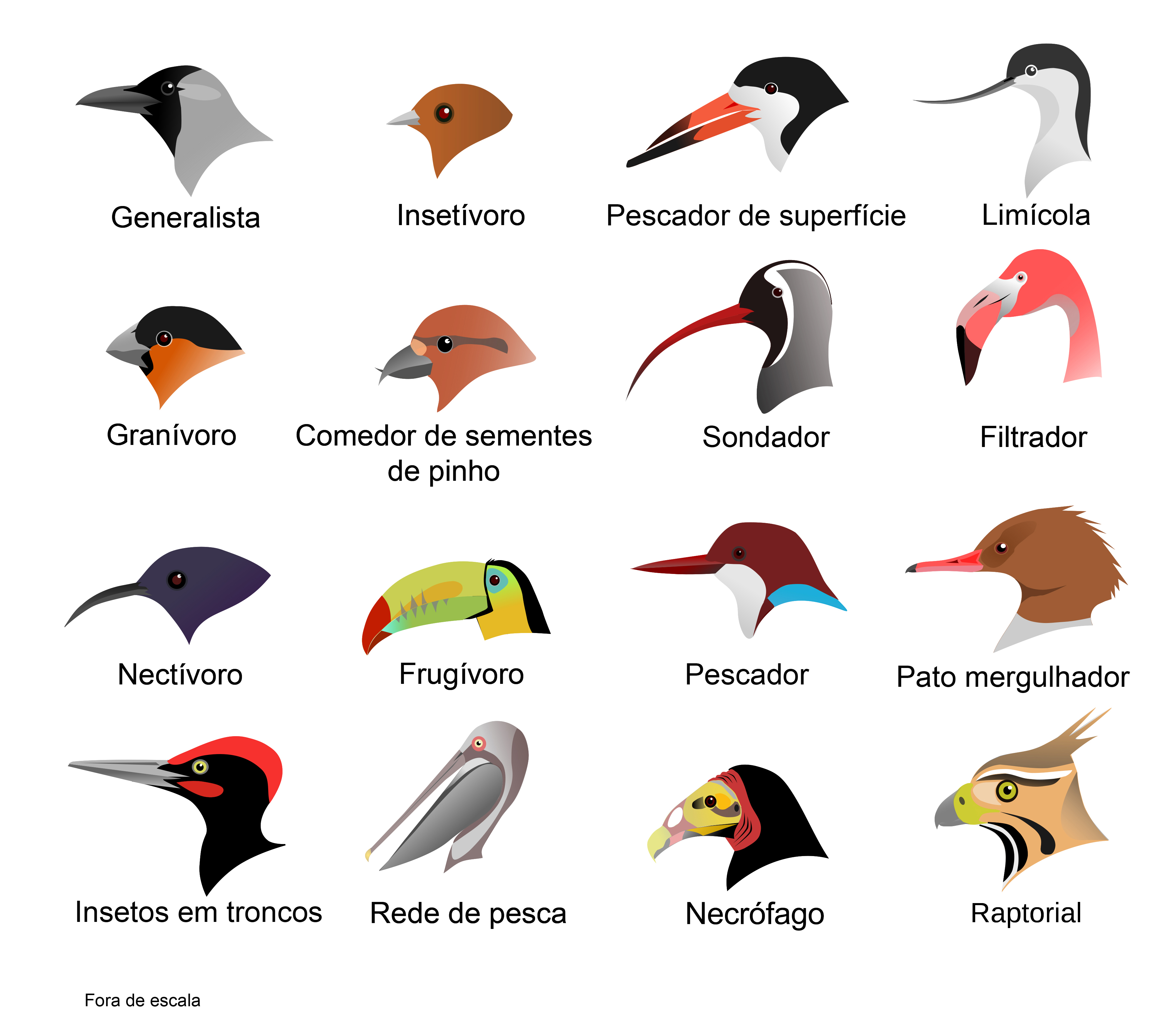 Bird beaks. Portuguese horizontal version.